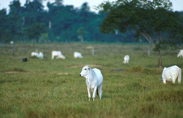 Nelore cattle from Nelore cattle thumbnail Image Number K8859-1 Nelore breed of beef cattle in Itapebi County of Bahia, Brazil. Photo by Scott Bauer.